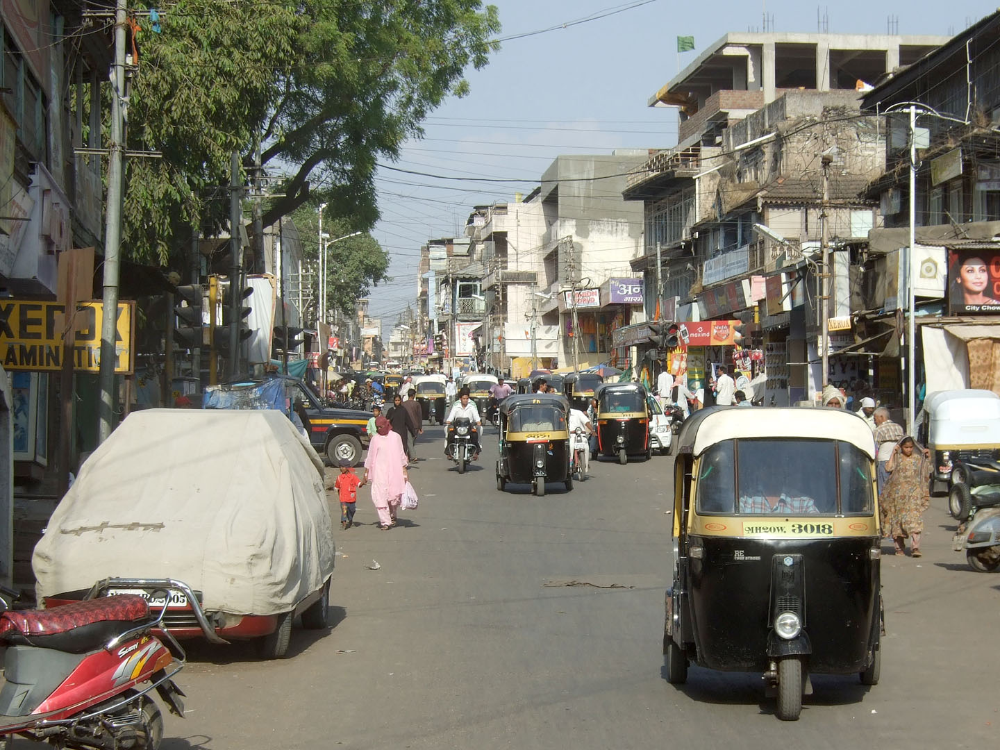 Juna-Bazar in Aurangabad, India